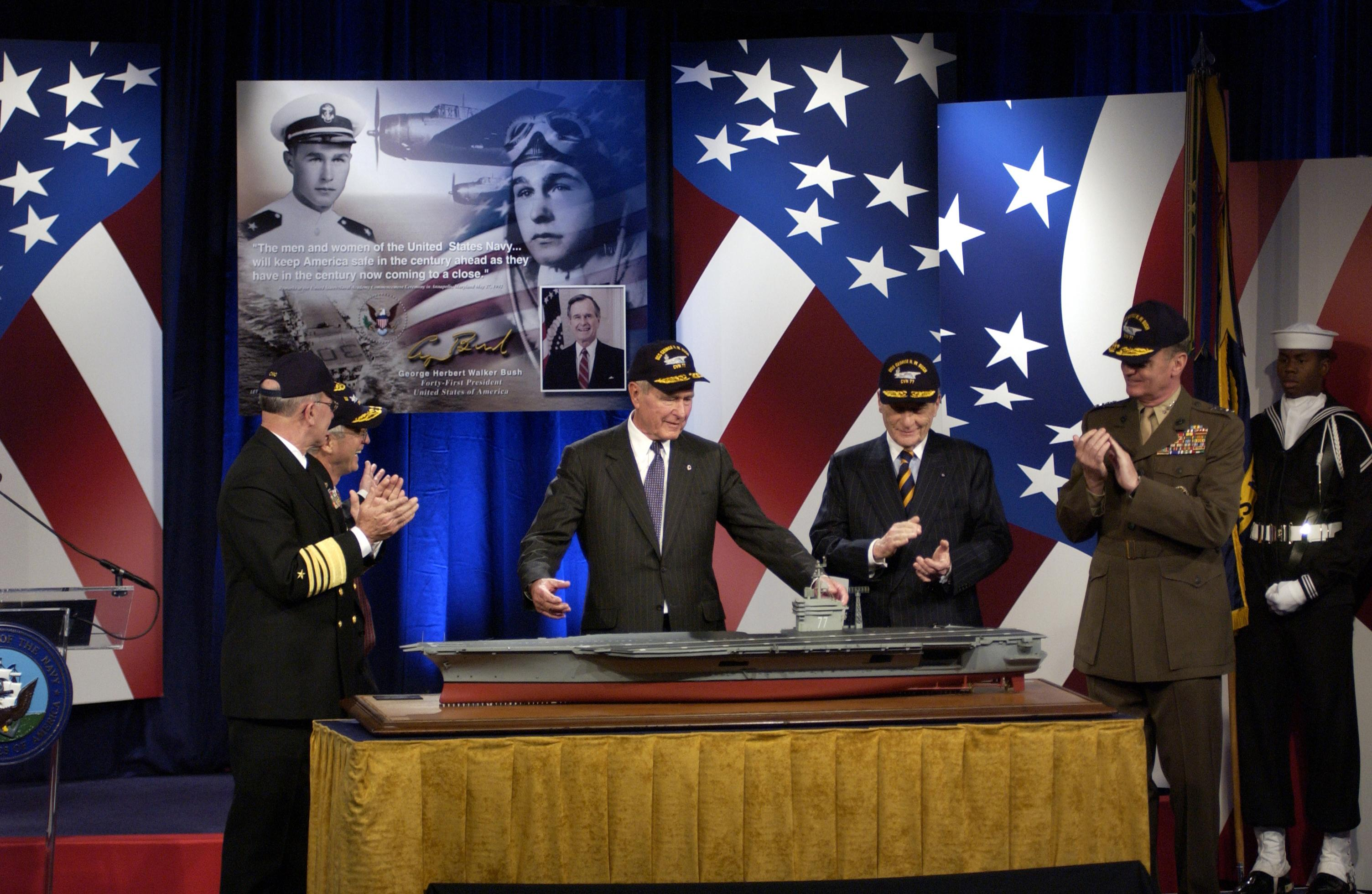 021209-N-2383B-001 Arlington, Va., The Pentagon (Dec. 9, 2002) -- Former President George H.W. Bush (center), the 41st President of the United States examines a model of CVN 77, the U.S. Navy’s 10th Nimitz-class aircraft carrier officially named USS George H.W. Bush by The Honorable Gordon England, Secretary of the Navy, at a ceremony held in the Pentagon. Photographed from left to right are Adm. Vern Clark, Chief of Naval Operations (CNO), Gordon England, Secretary of the Navy, former President George H.W. Bush, Senator John Warner, R-Va., and General James L. Jones, Commandant of the U.S. Marine Corps.